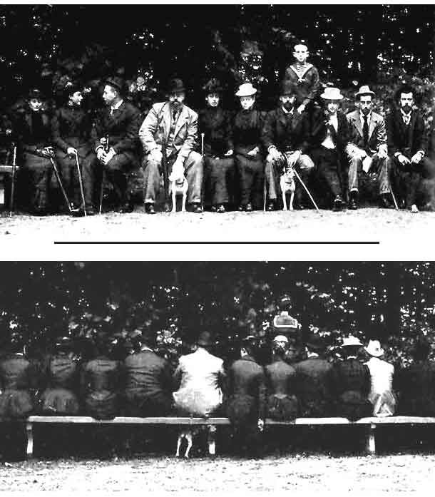 TWO VIEWS OF ROYALTY From photographs taken at Lyngby, near Copenhagen, in 1894. In the facing photograph the former Czar of Russia is seen, with black hat and light clothes, holding his favorite dog. From left to right the others are: the Princess of Hesse; the Princess Marie; Prince Waldemar with his dog; a dame d'honneur; (= Queen Alexandra???) King Christian X. of Denmark; (must be the boy) and the present Czar of Russia. The man at the extreme left of the picture is the present King, George of Greece.